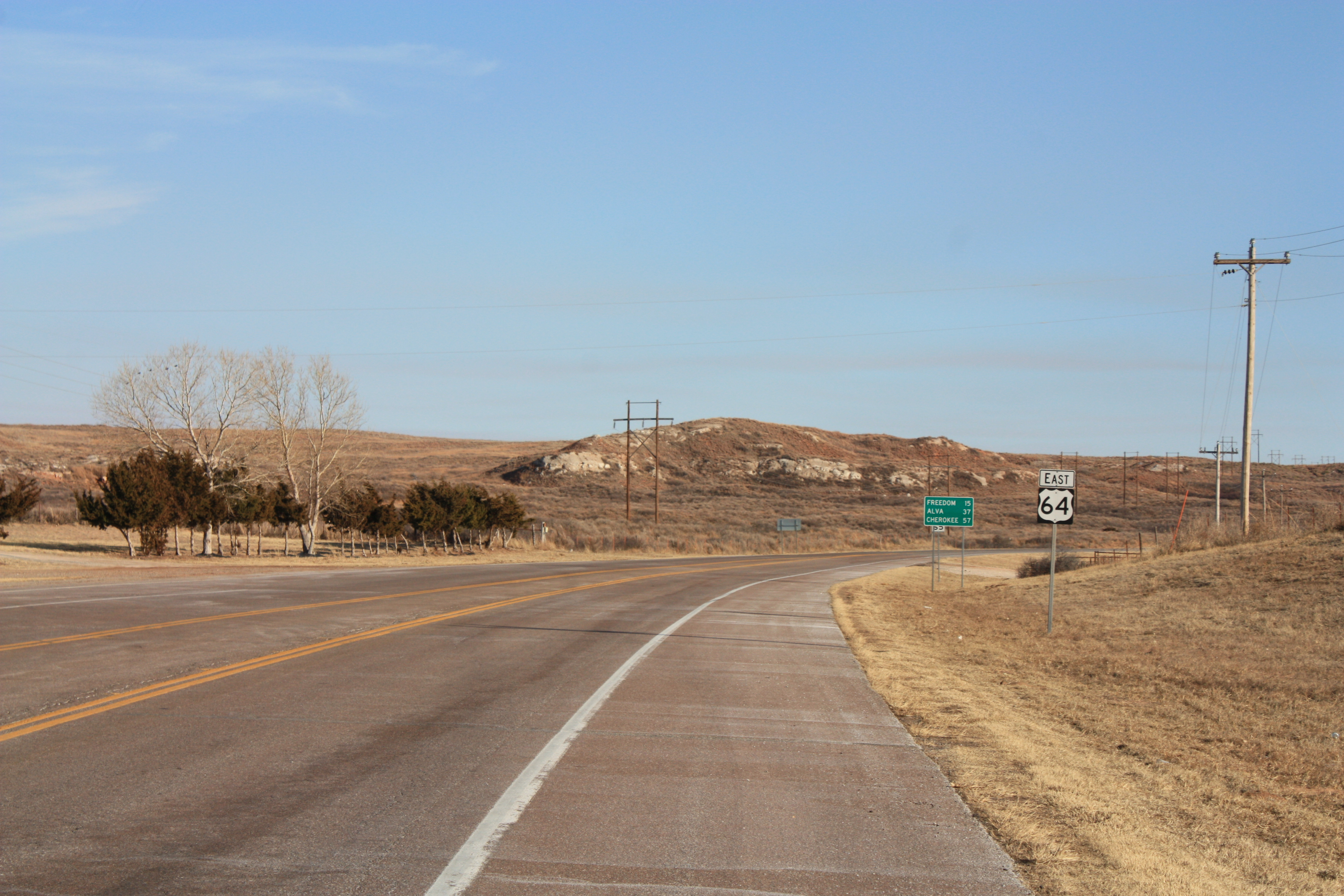 US-64 in Woods County Oklahoma. Destination sign says; "Freedom - 15, Alva - 37, Cherokee - 57"